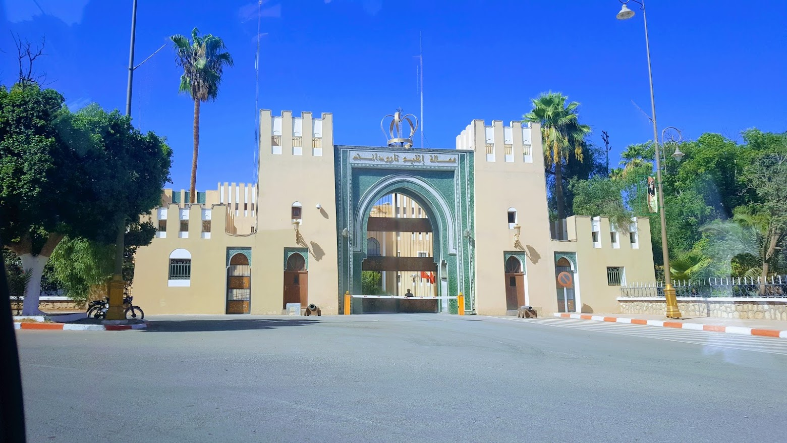 Taroudant Province building